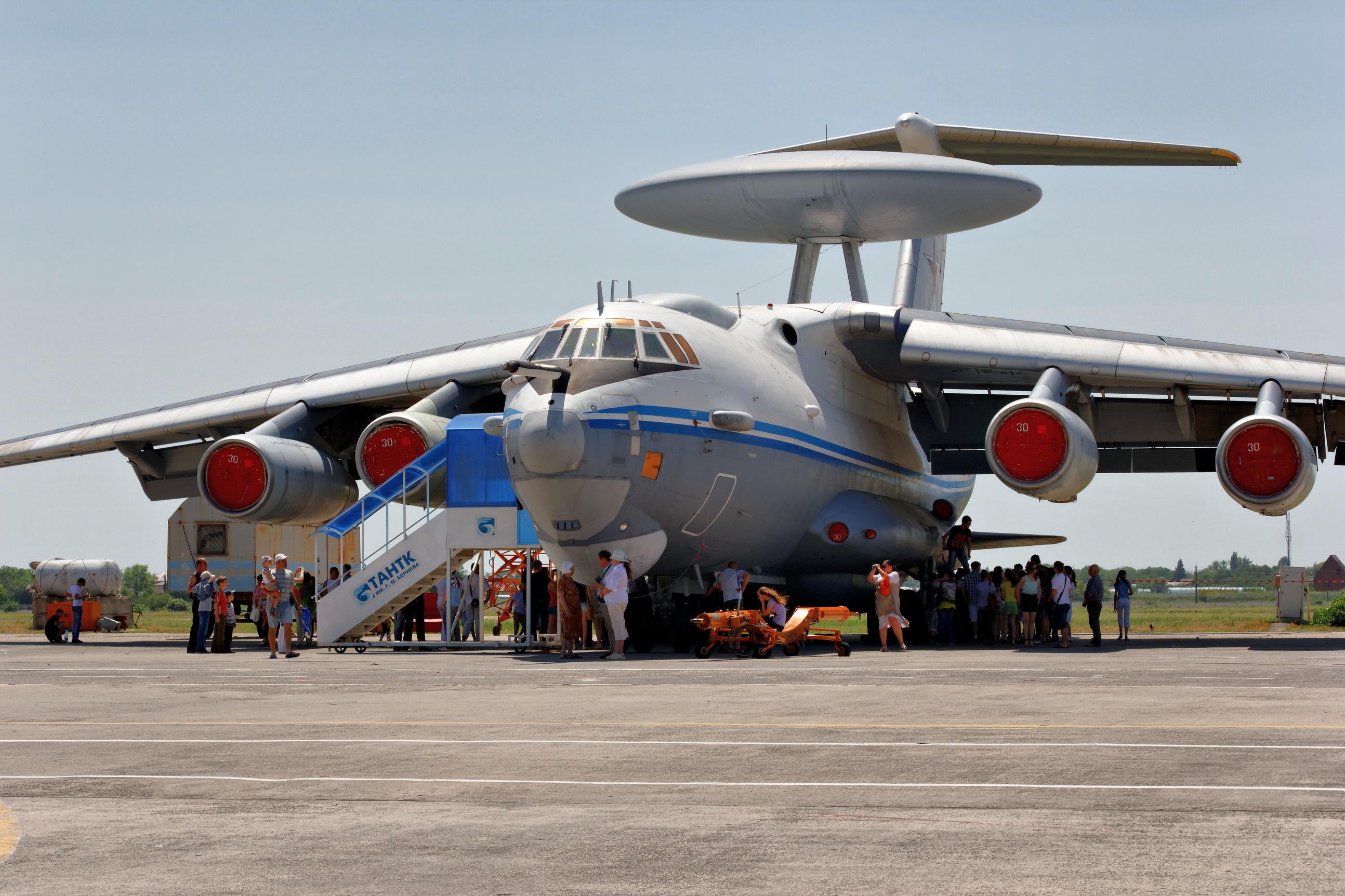 Taganrog. Beriev Aircraft Company. Beriev A-50